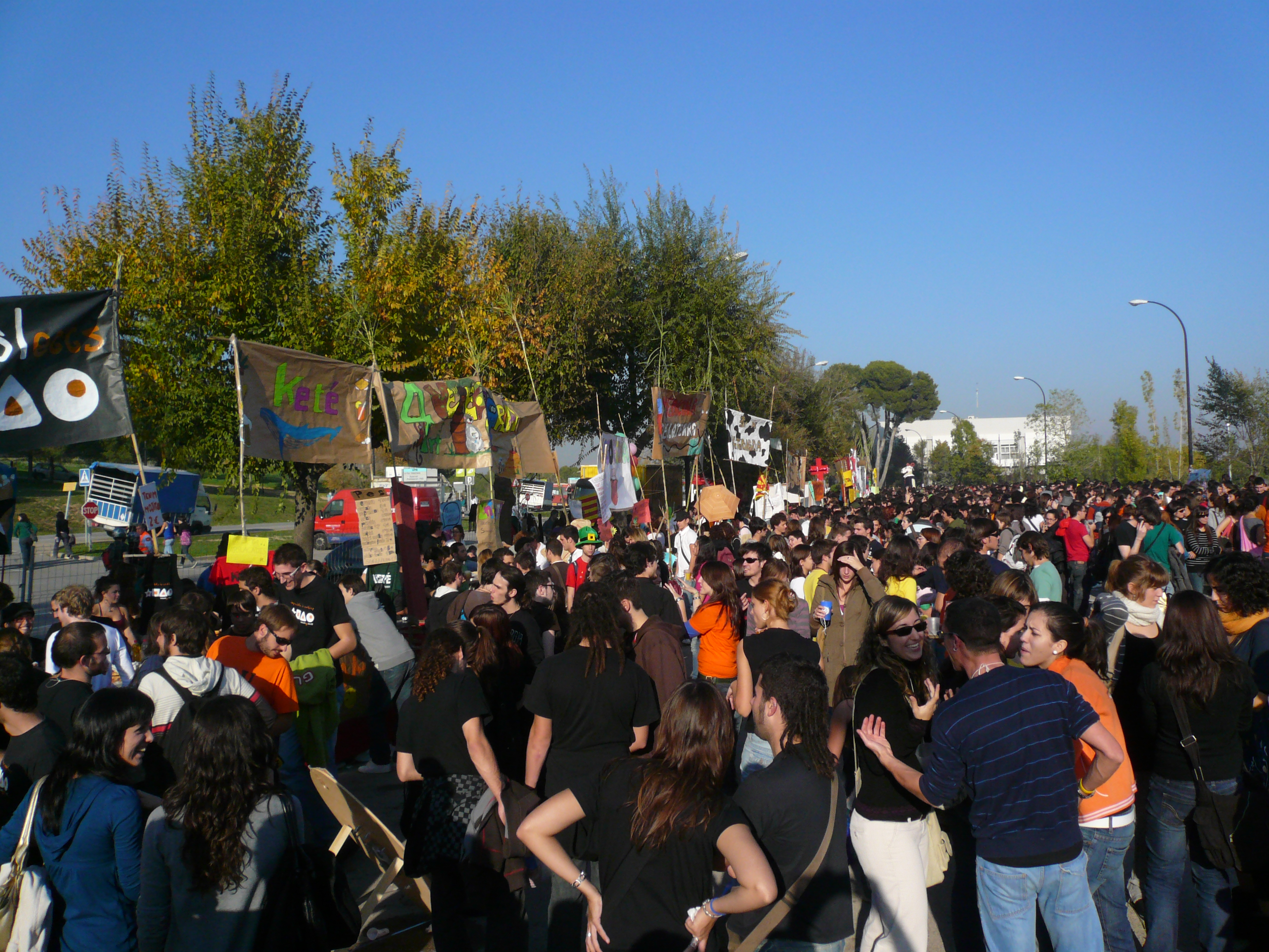 Photo of Espai "La Solana", situation place of the 2007 Universitat Autònoma de Barcelona's Festa Major carps.